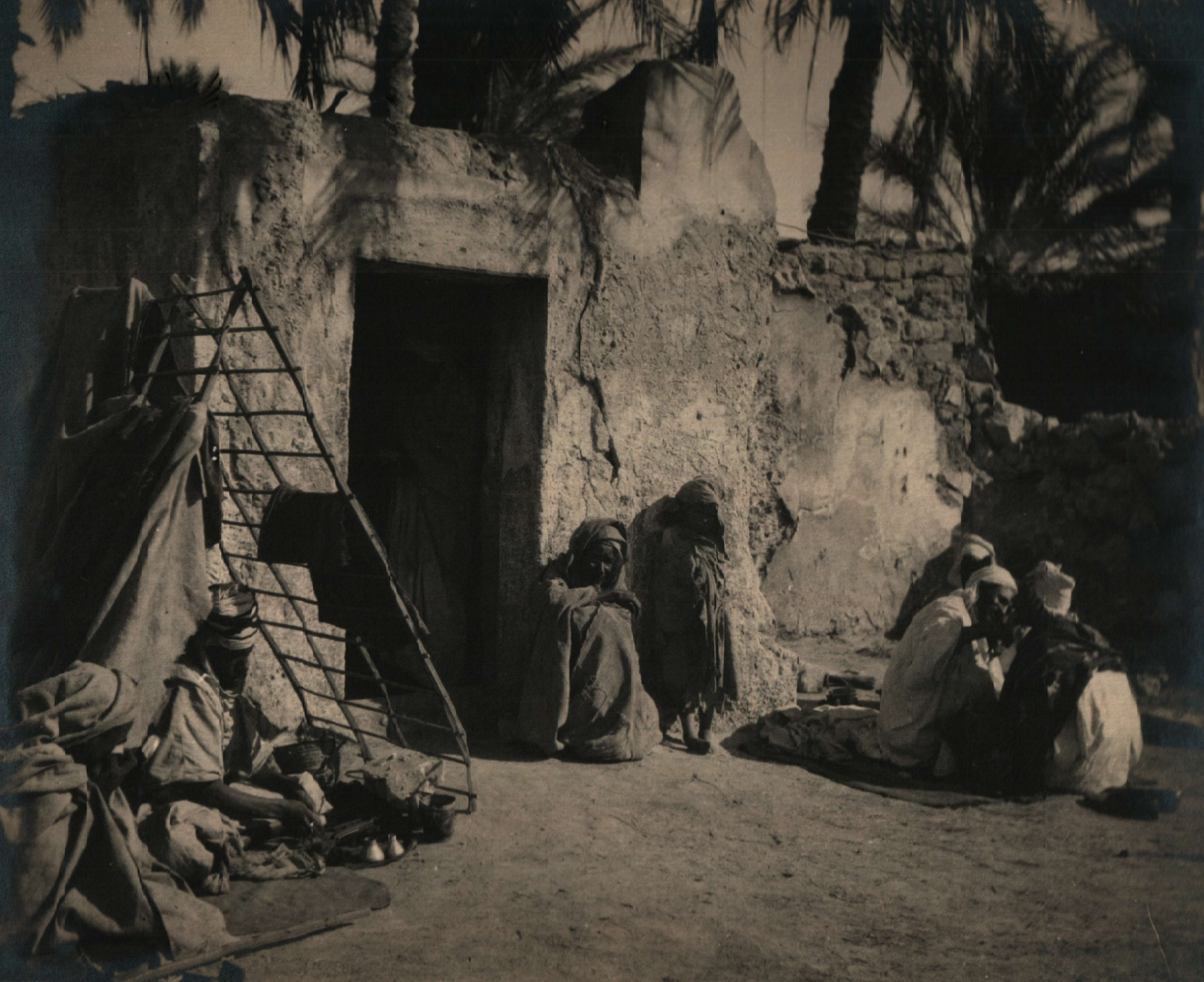 Touggourt, Algeria. Views and photos of the Sahara desert and other regions in Africa.